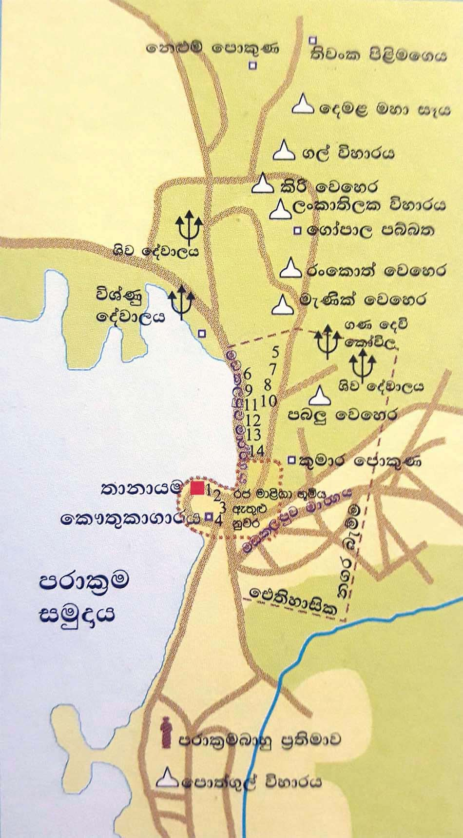 Ancient City map